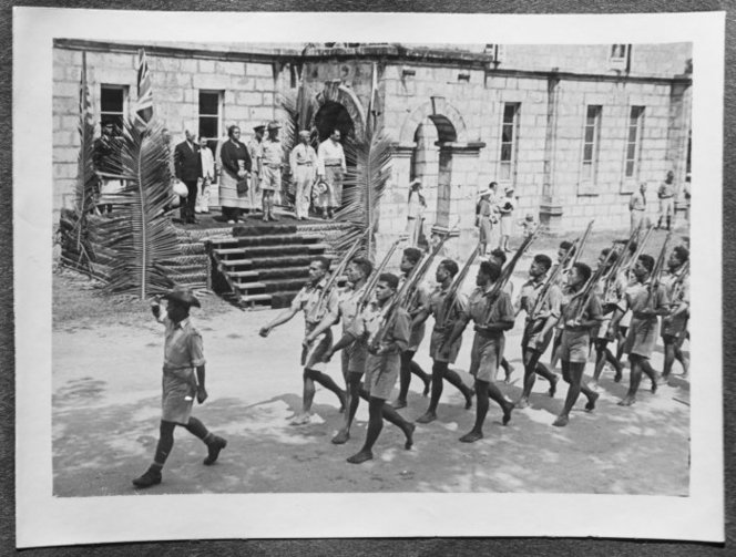 Members of the Tonga Defence Force of 2nd NZEF on parade in Tonga celebrating the capitulation of Italy during World War 2. New Zealand. Department of Internal Affairs. War History Branch :Photographs relating to World War 1914-1918, World War 1939-1945, occupation of Japan, Korean War, and Malayan Emergency. Ref: PA1-f-107-27-7. Alexander Turnbull Library, Wellington, New Zealand.